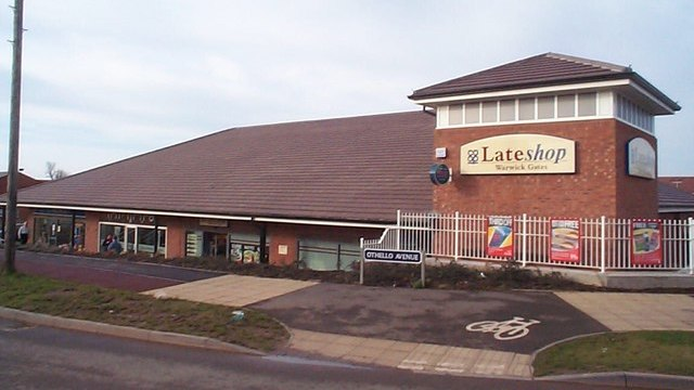 Co-op Store at Warwickgates District Centre including convenience store, takeaways and chemist.